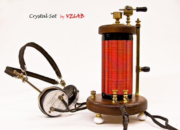 A crystal radio receiver built by Jerry Clement.